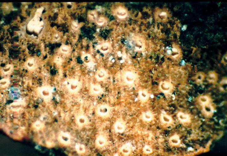 Sticta fuliginosa (Hoffm.) Ach., 1803 (photograph of the lower surface of a herbarium specimen showing cyphellae) Growing on soil, in an oak woods, along the Appalachian Trail at Monument Knob, Frederick County, Maryland, USA; collected and identified by Elmer G. Worthley (No. LH-103, 8 Feb 1950); specimen is now in the Lichen Herbarium of the New York Botanical Garden.